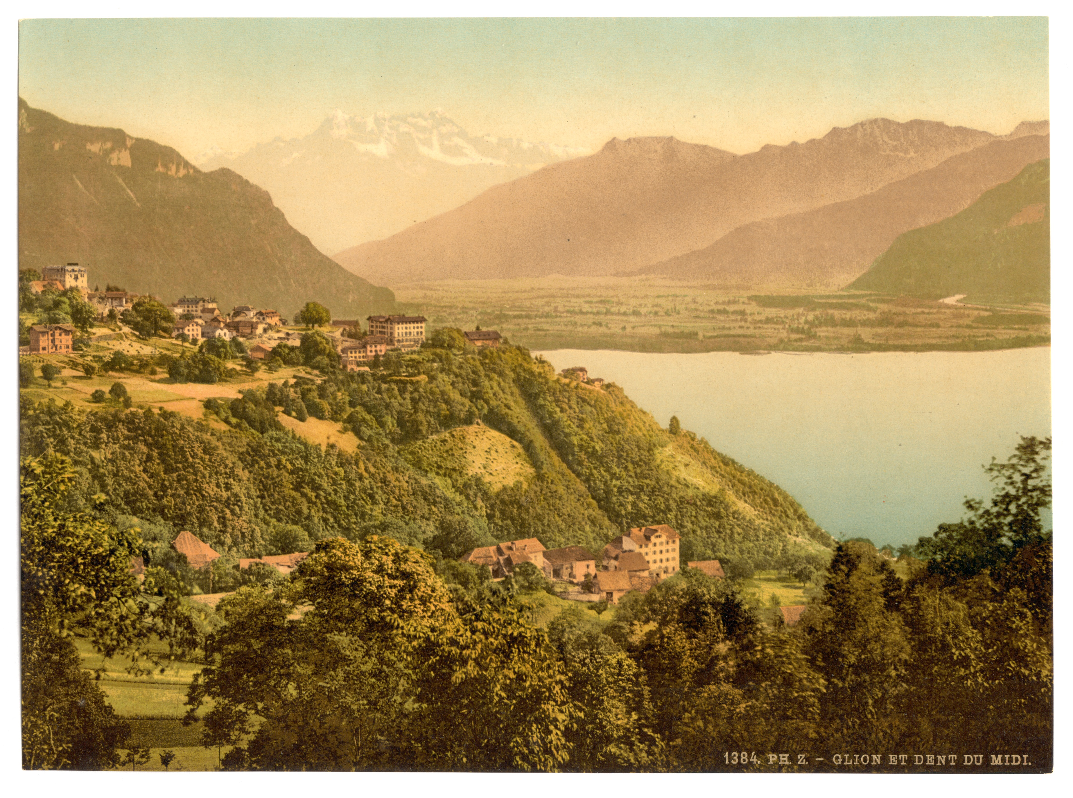 Forms part of: Views of Switzerland in the Photochrom print collection.; Title devised by Library staff.; Print no. "1384".